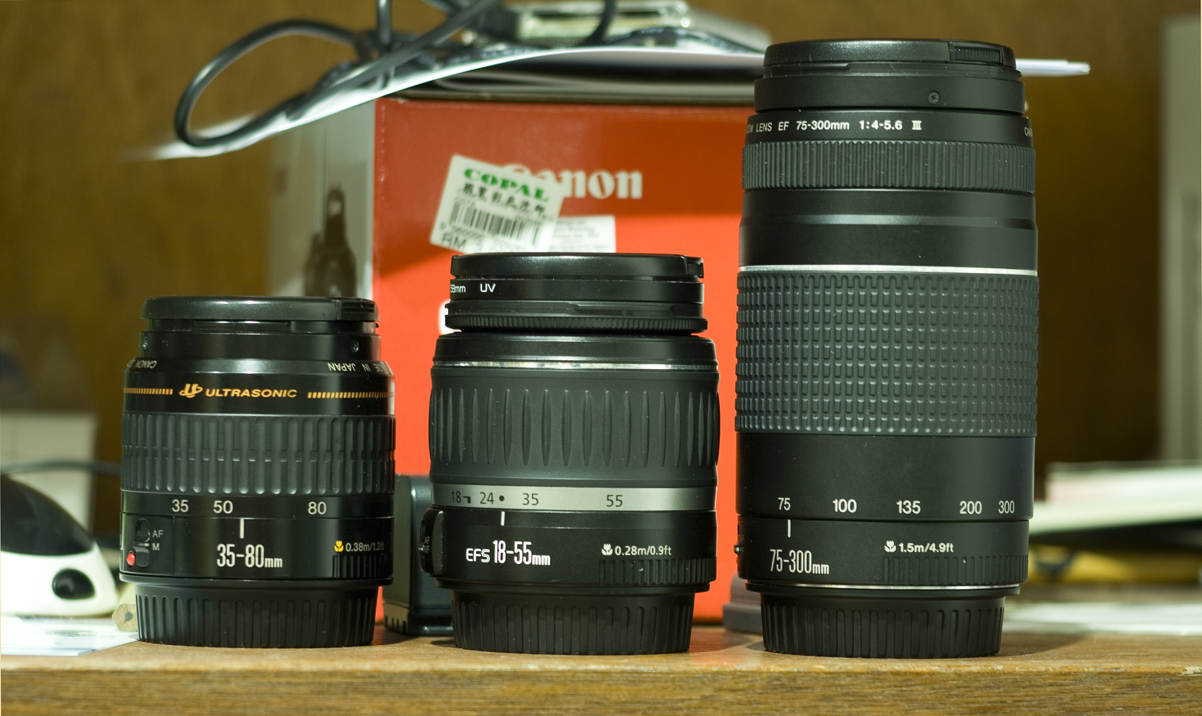 A variety of Canon EF and EF-S lenses. From left to right: EF 35-80mm USM f4-5.6, EF-S 18-55mm f3.5-5.6, and EF 75-300mm f4-5.6. Shot with a Canon EOS 400D with EF 55-200mm f4.5-5.6 lens.